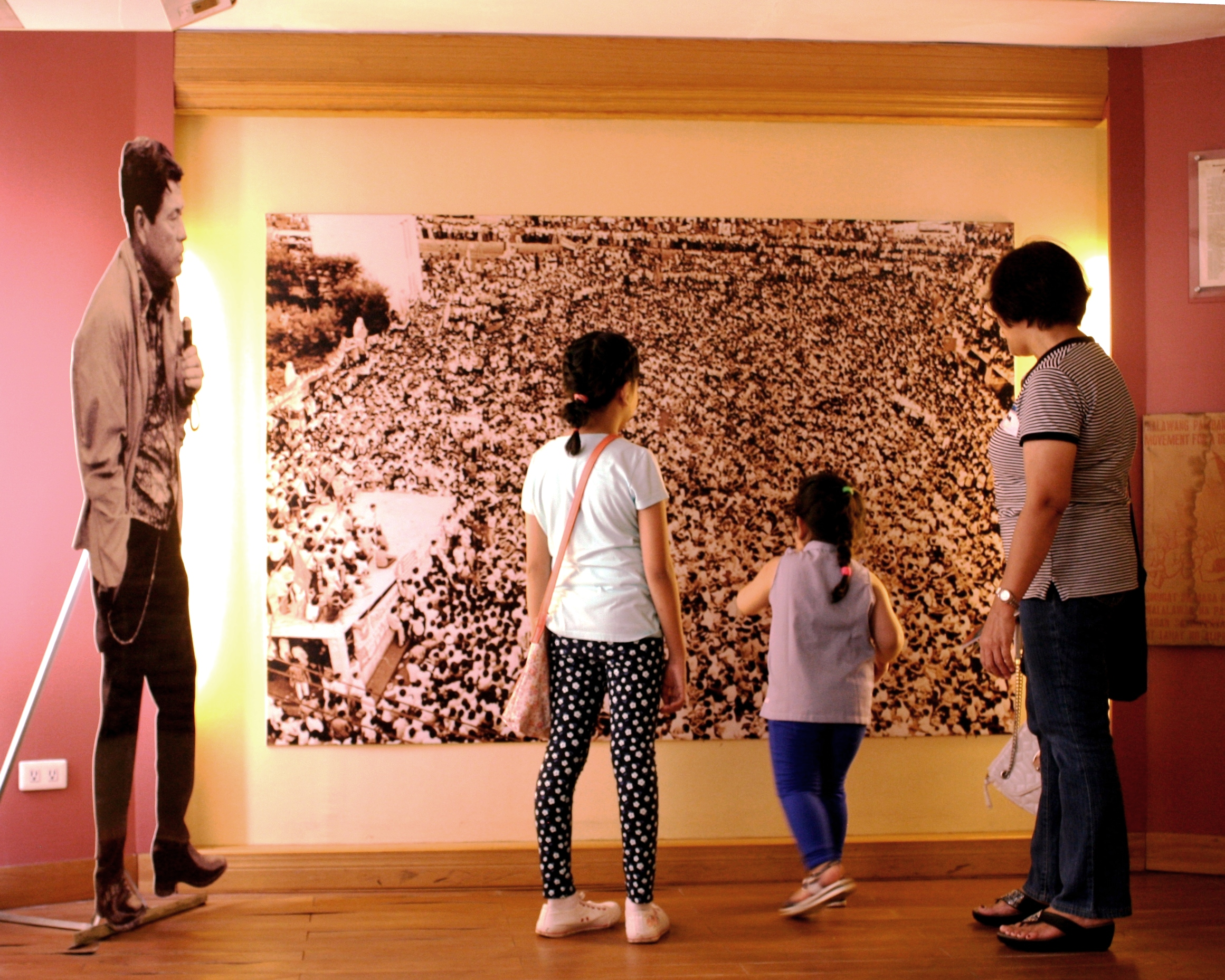 Visitors to the Bantayog ng mga Bayani Museum, photographed on August 21, 2018, ponder a photograph of one of the Movement of Concerned Citizens for Civil Liberties (MCCCL) protests of 1972 while a standee of MCCCL leader, Senator Jose "Ka Pepe" Diokno, looks on.